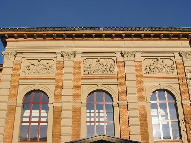 Listed building, former „Gertrauden-Hospital“, in Berlin-Kreuzberg. Built by Friedrich Koch in 1871/73 and 1883/84. Detail over main entrance.